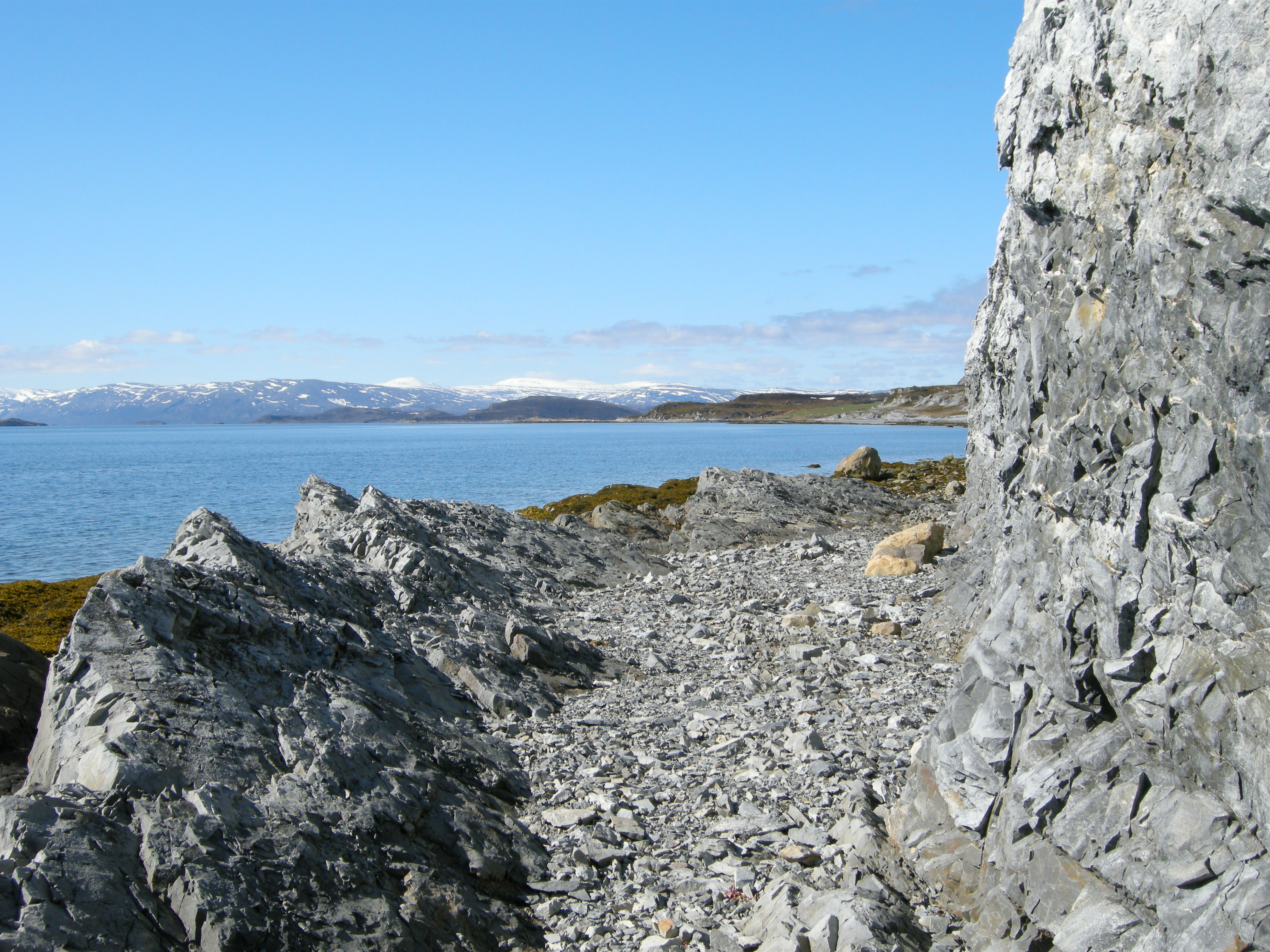 Dolomit in Porsangen